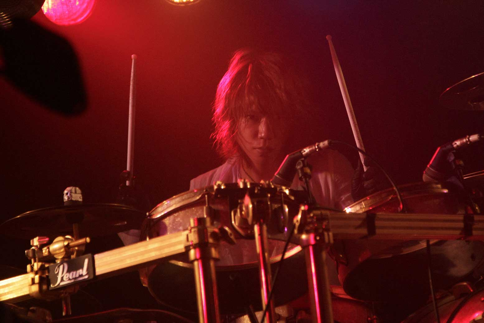 Taken at the Dir en Grey concert at House of Blues on Dec 23, 2011